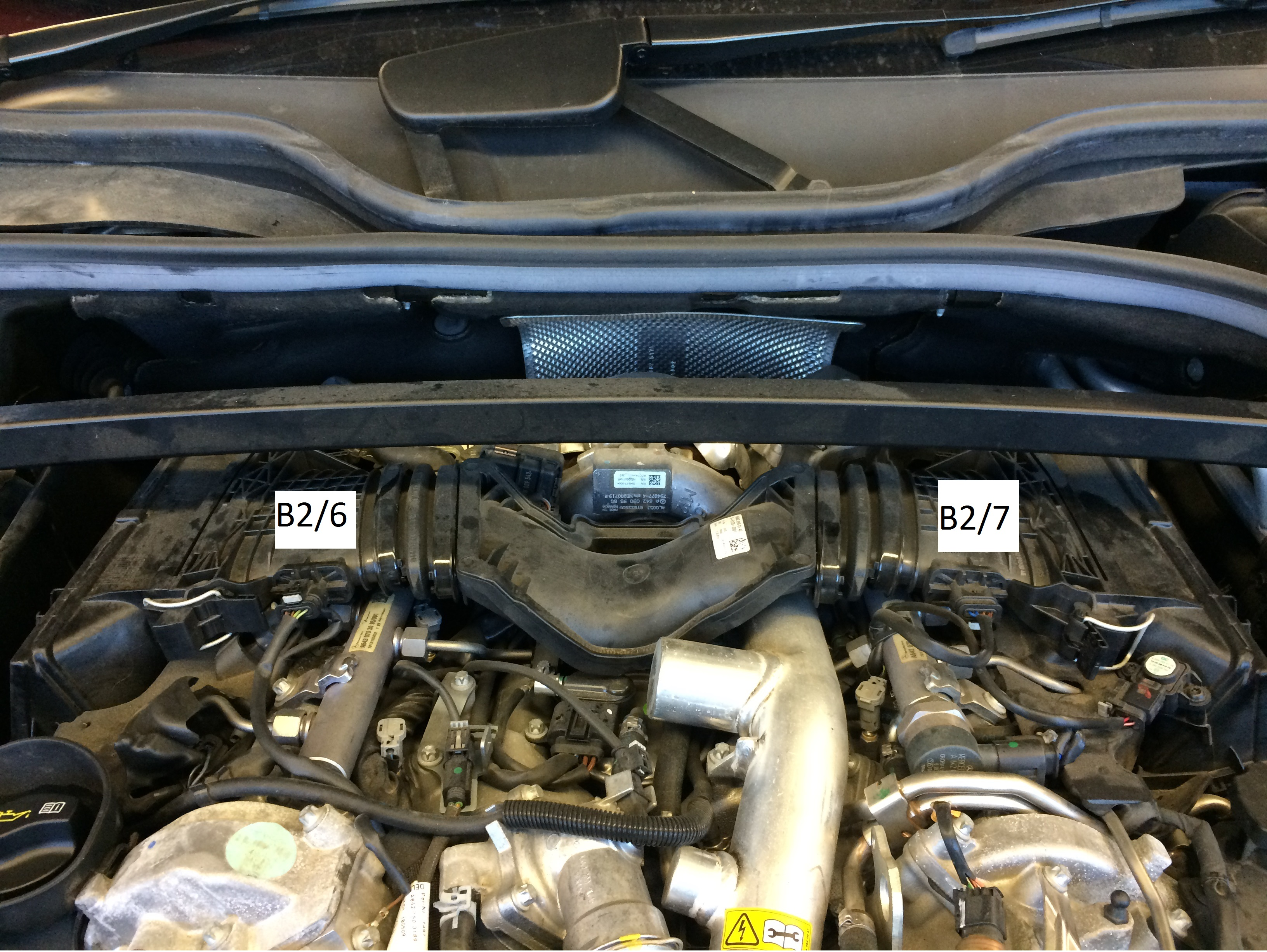 Mercedes OM642 intake air duct